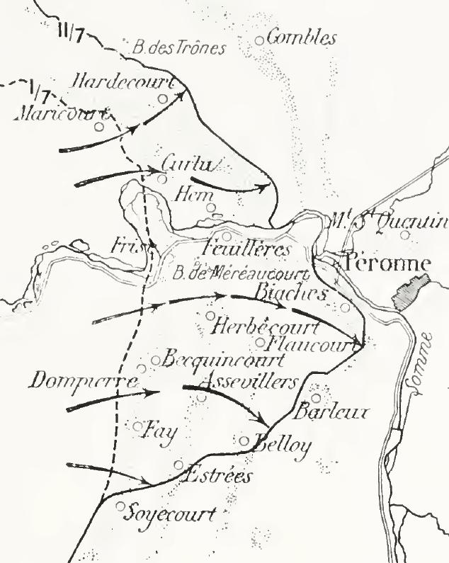 Map: French advances south bank of the Somme, 1916